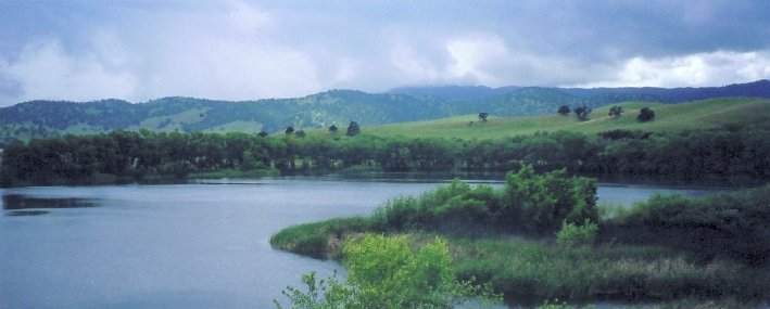 Marsh Creek Reservoir CA-CCO-548